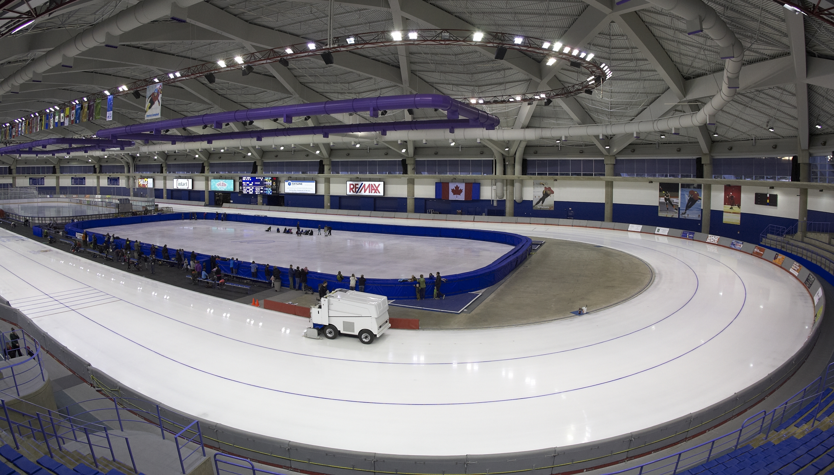 A Zamboni preps the ice at the Olympic Oval.